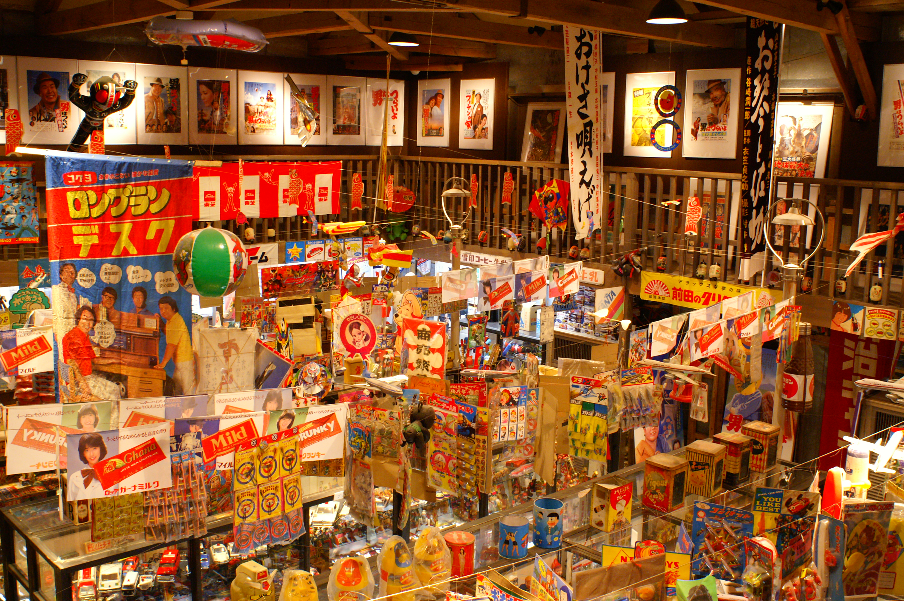 "Dream of Dagashi-ya" museum 1